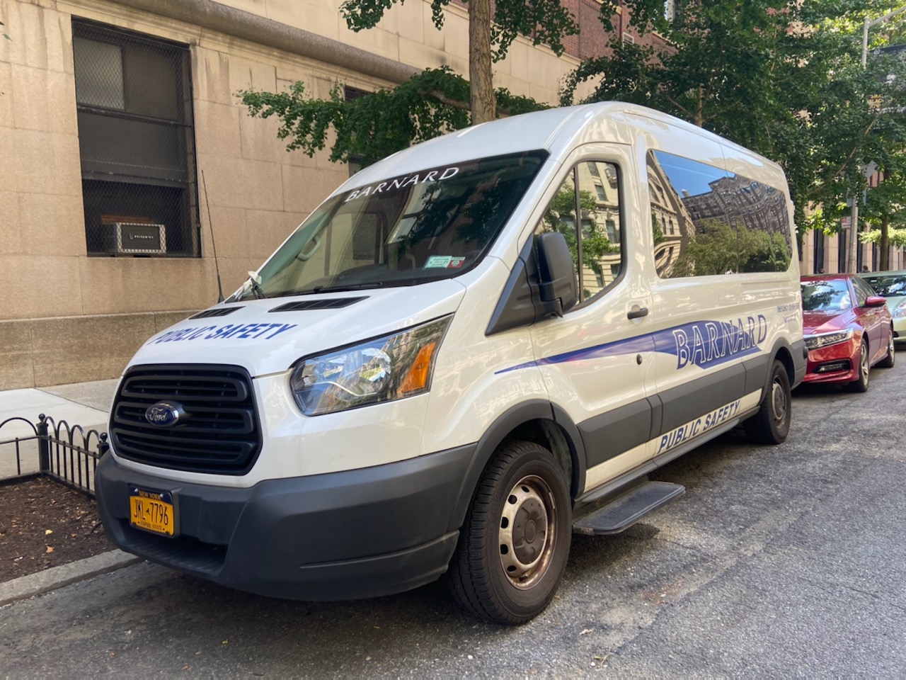 2019 Ford Transit JKL7796 Barnard Public Safety Shuttle